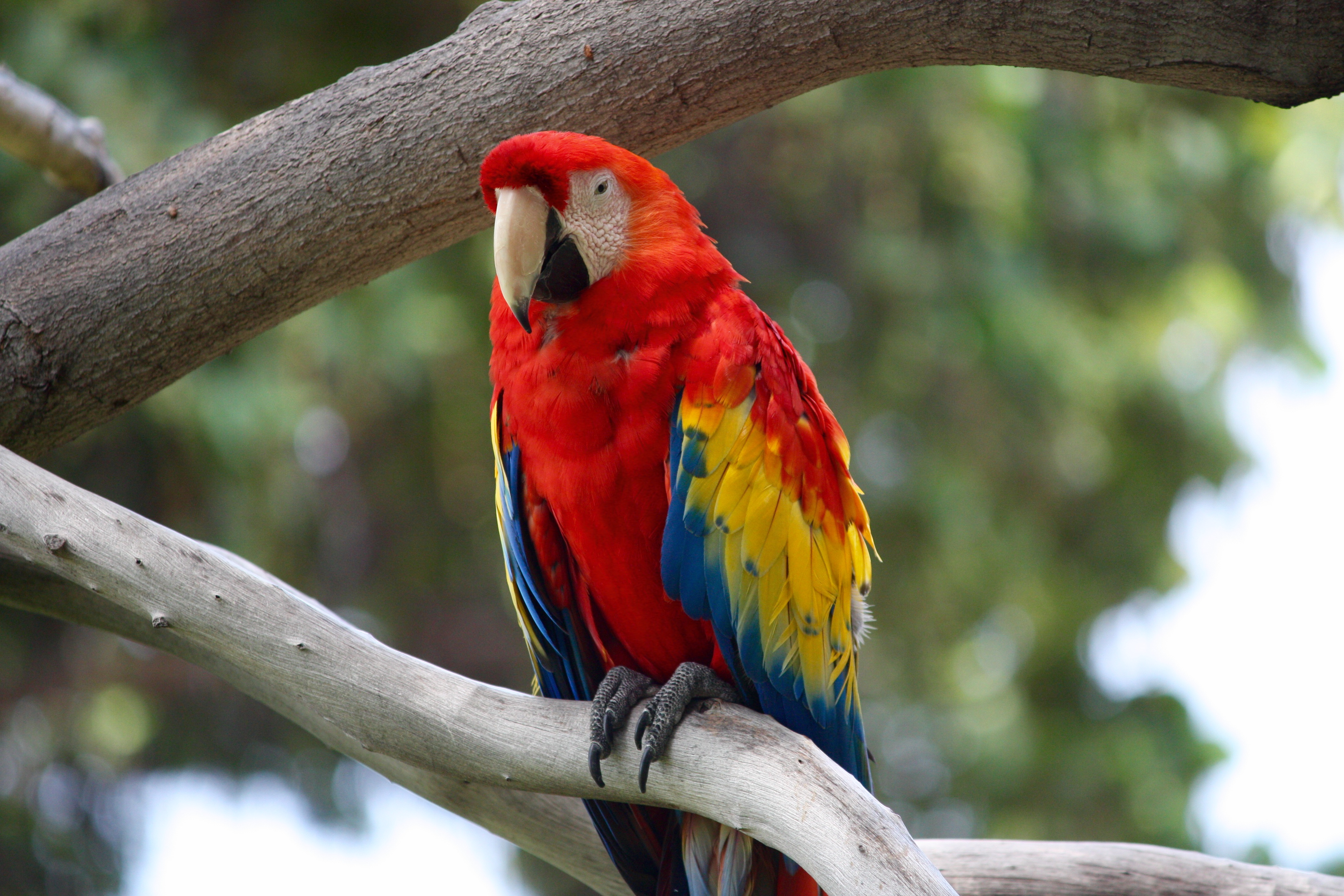 parrot on a tree